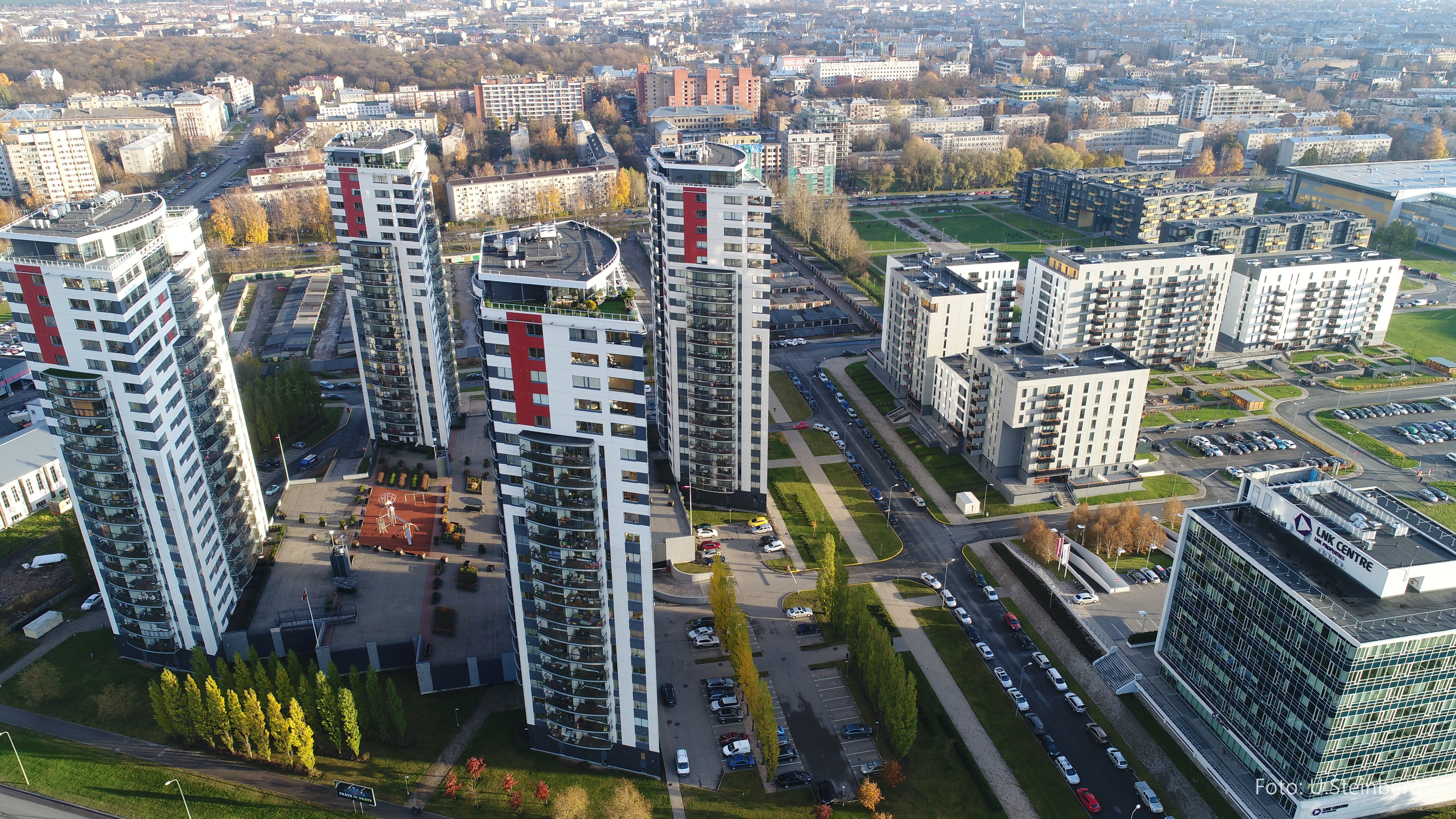 Grostonas iela